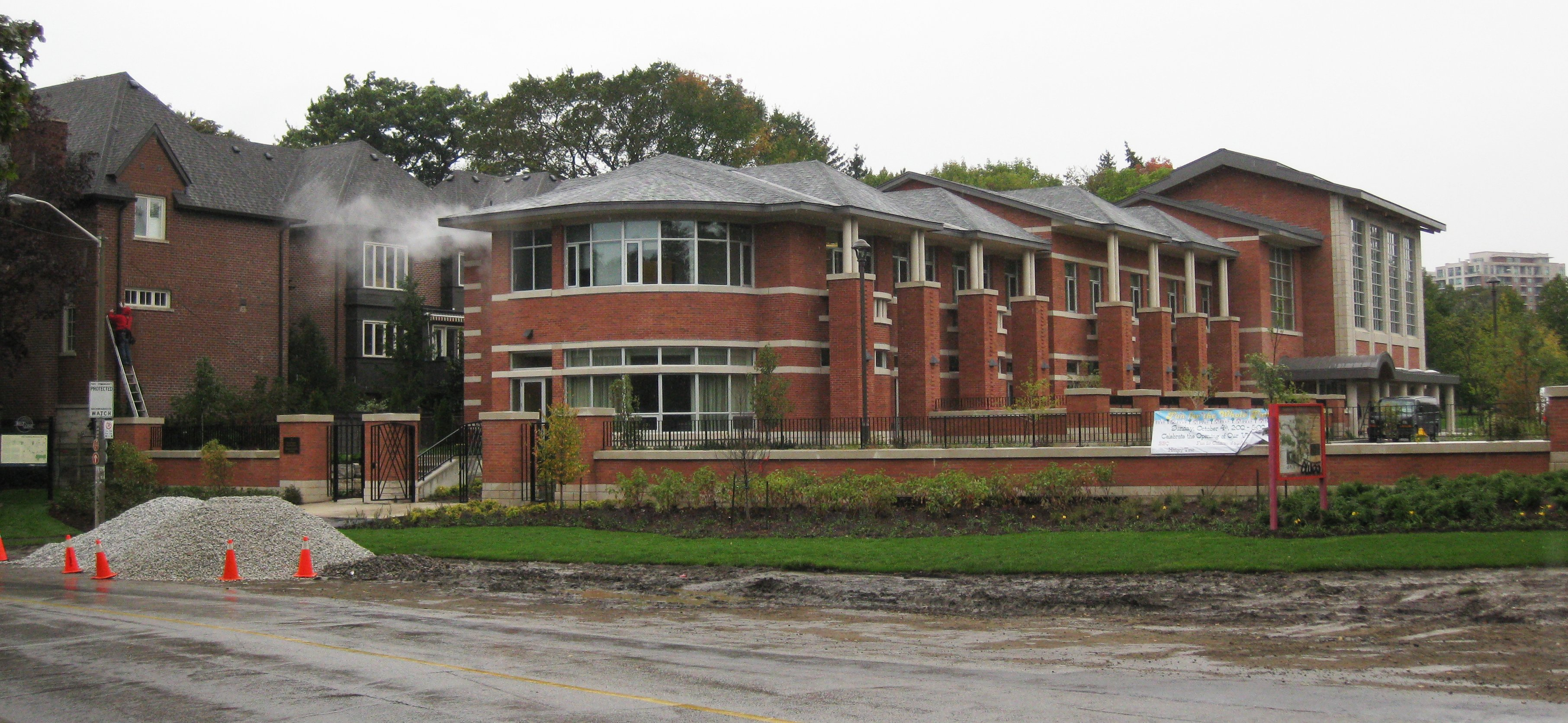 A photo of the Mount Pleasant Visitation Center in Toronto, Ontario, Canada. The camera is facing north, across Moore Park Avenue looking at the visitation centre which was completed in the Fall of 2009.